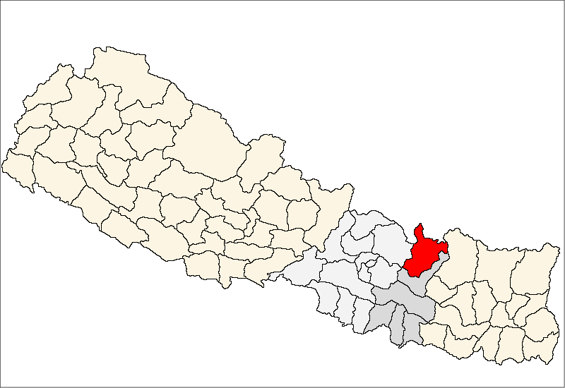 FrenchCarte de localisation dudistrict de Dolkha(wp-FR),au Népal (wp-FR).EnglishLocation map ofDolkha District(wp-EN),in Nepal (wp-EN).